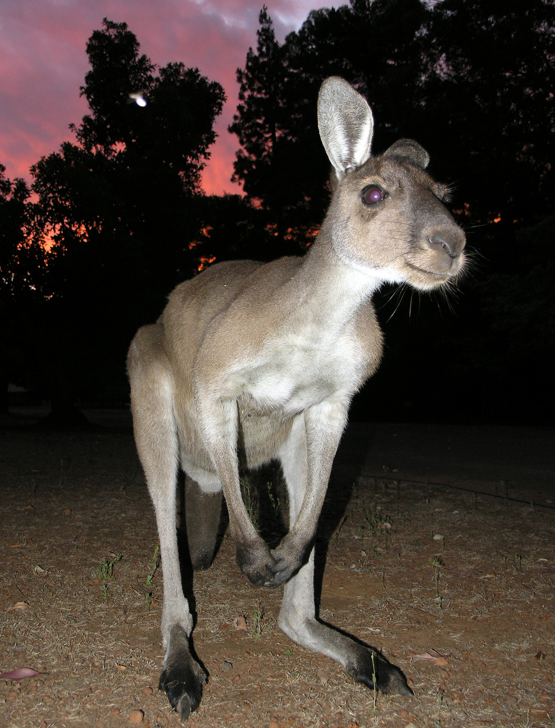 Western Grey Kangaroo taken at Donnelly Mills, Western Australia by myself.